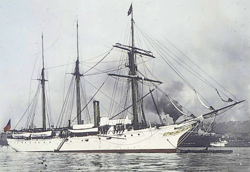 The USCS&GS Carlile P. Patterson, a survey ship best known for her explorations of Alaska.